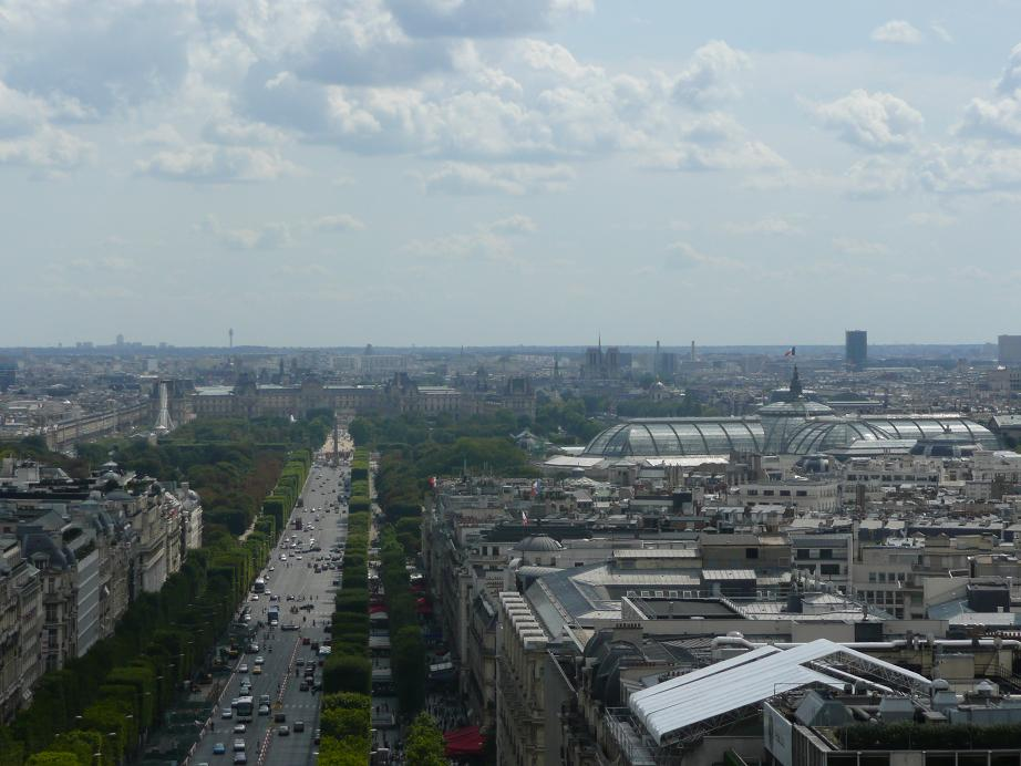 Paris from the Arc de Triomphe